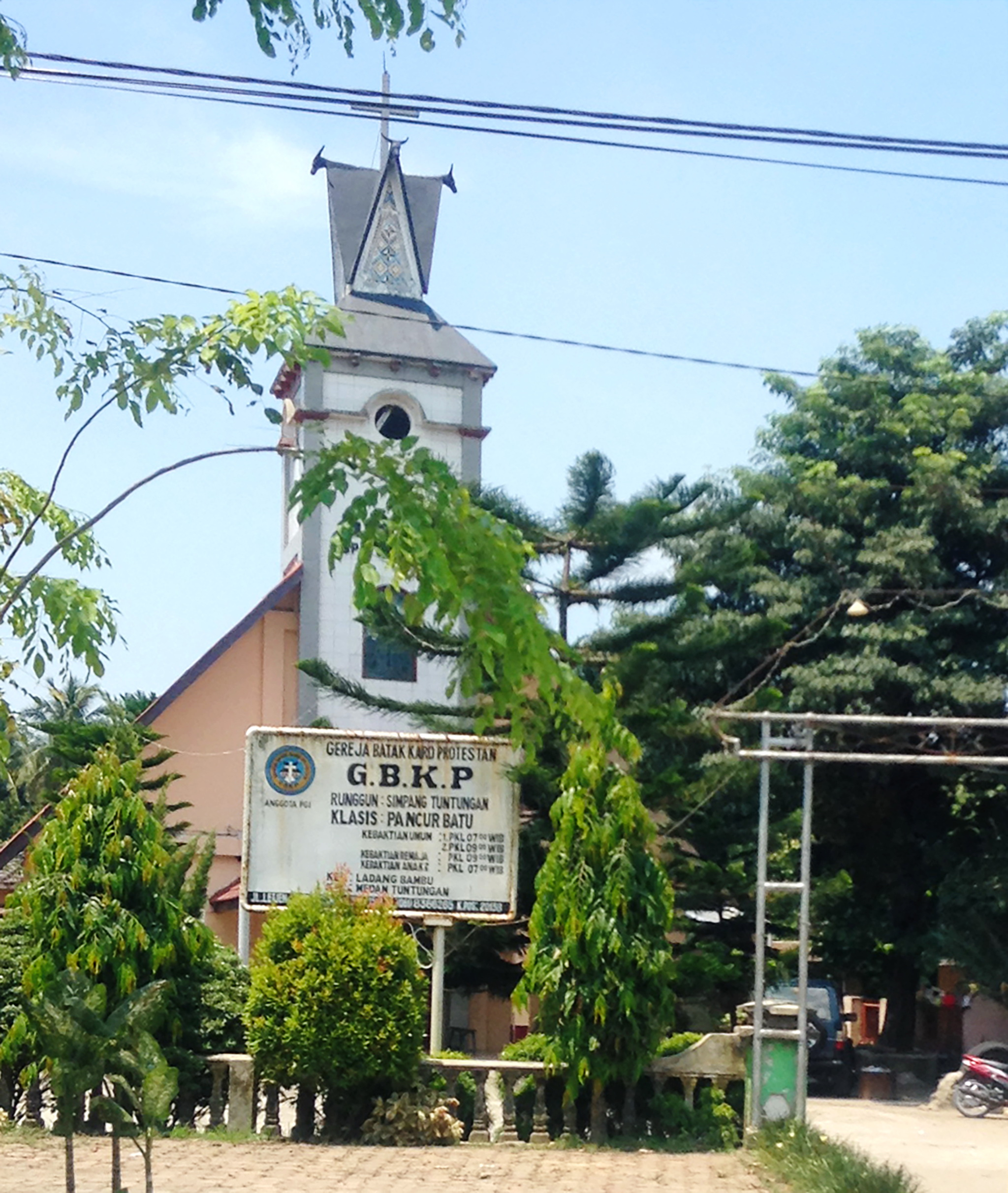 GBKP Rg. Simpang Tuntungan, Klasis Pancur Batu, Church in Ladang Bambu, Medan Tuntungan, Medan